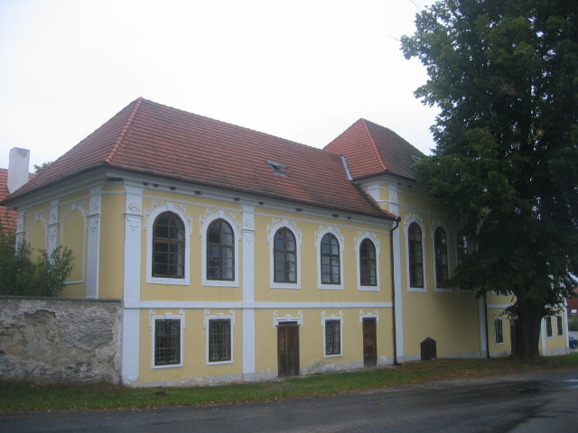 Small castle in baroque style in the village of Varvažov, South Bohemian Region (Czech Republic)